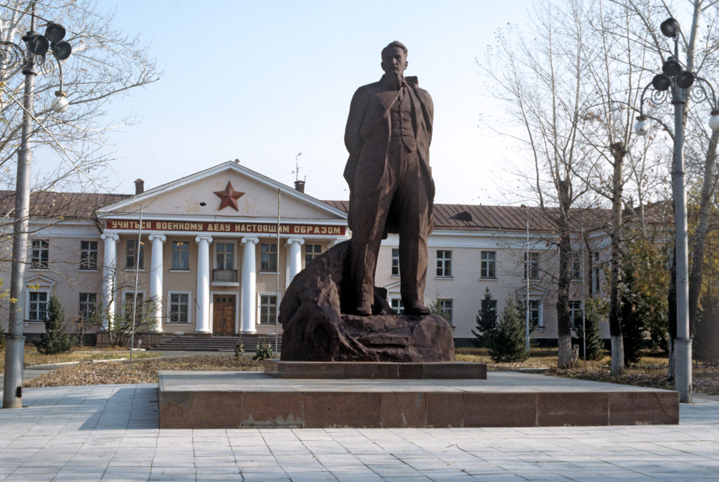 “A monument to Kurchatov on the background of the Semipalatinsk nuclear test site's Central Staff”. A monument to Academician Igor Kurchatov, one of the developers of nuclear weapons and founder of the Semipalatinsk nuclear test site on the background of the site's Central Staff.